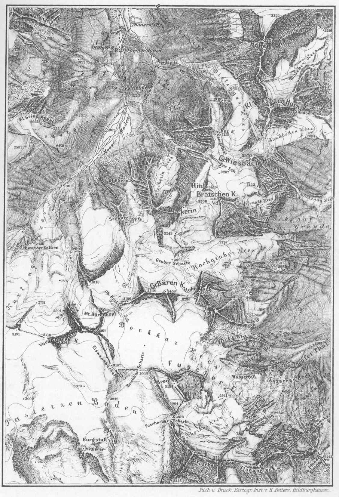 historic map from Hohe-Tauern-Alps, 1891